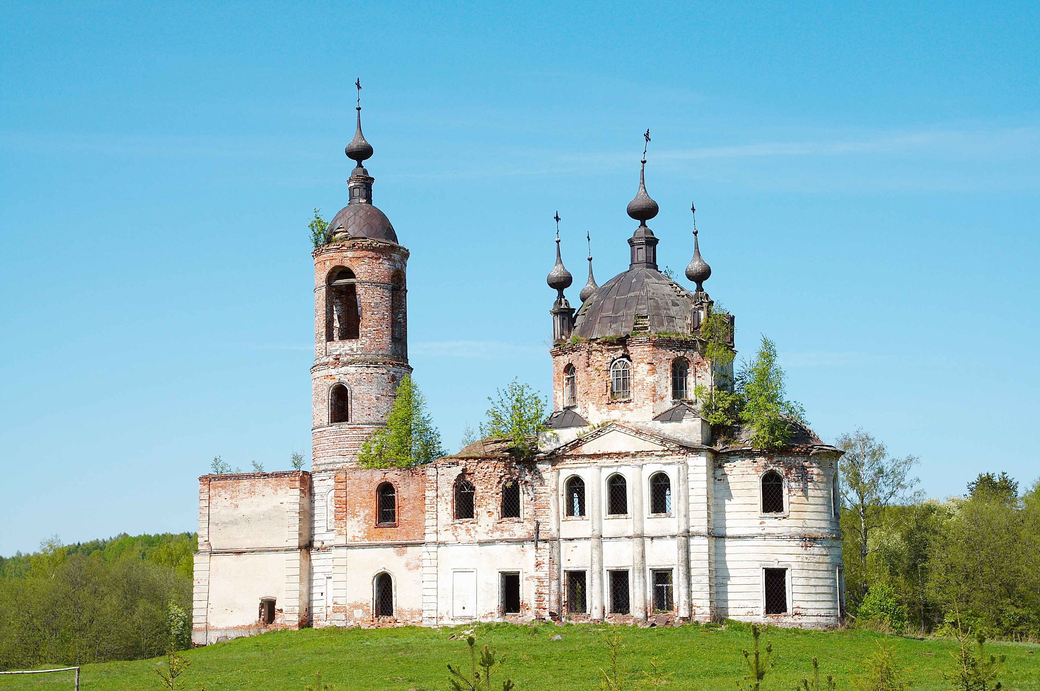 Church in Brynchagi village